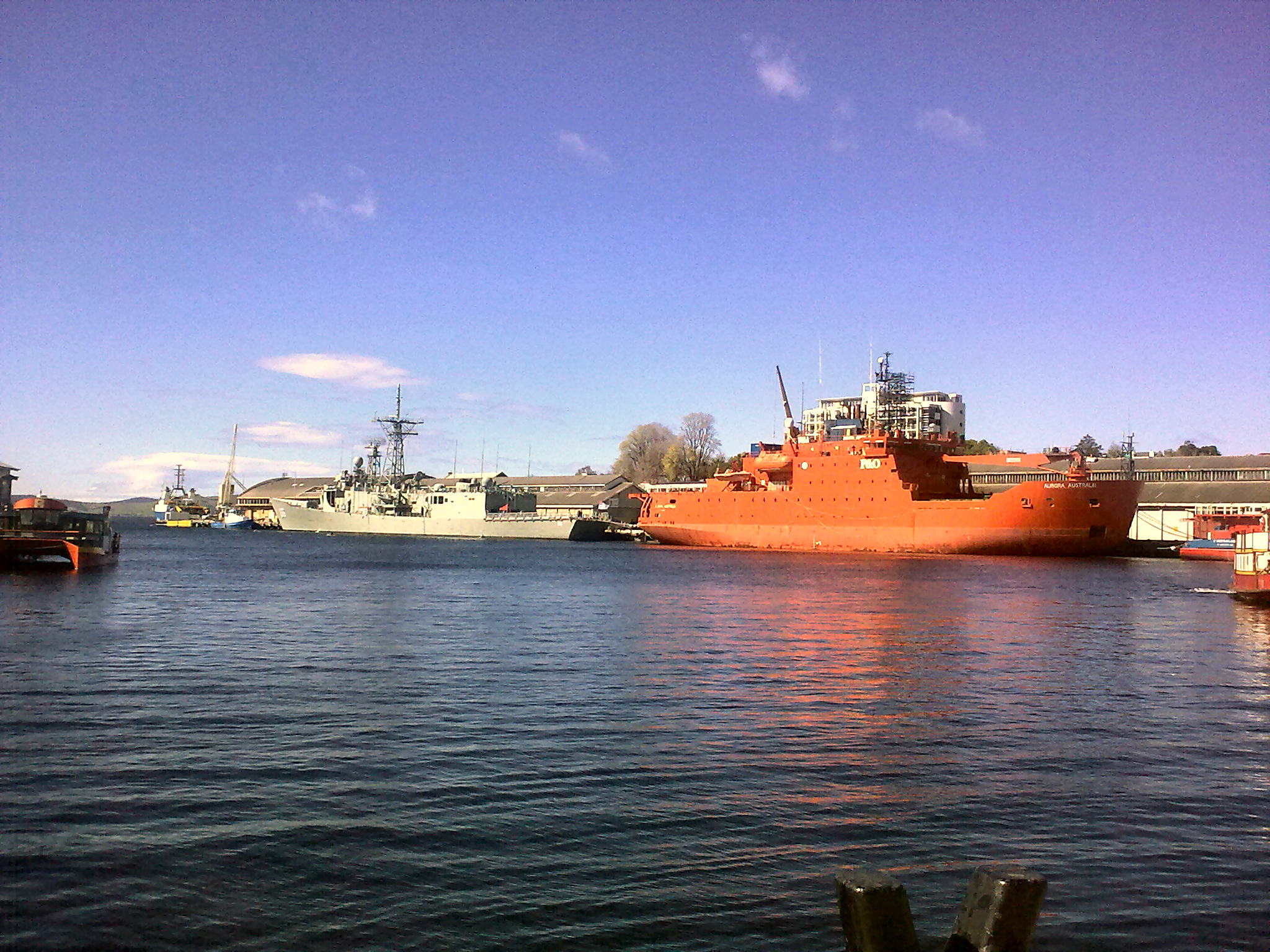 The Aurora Australis and the HMAS Newcastle Docked at Hobart, Tasmania.